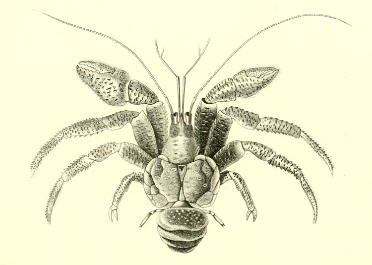 Birgus latro